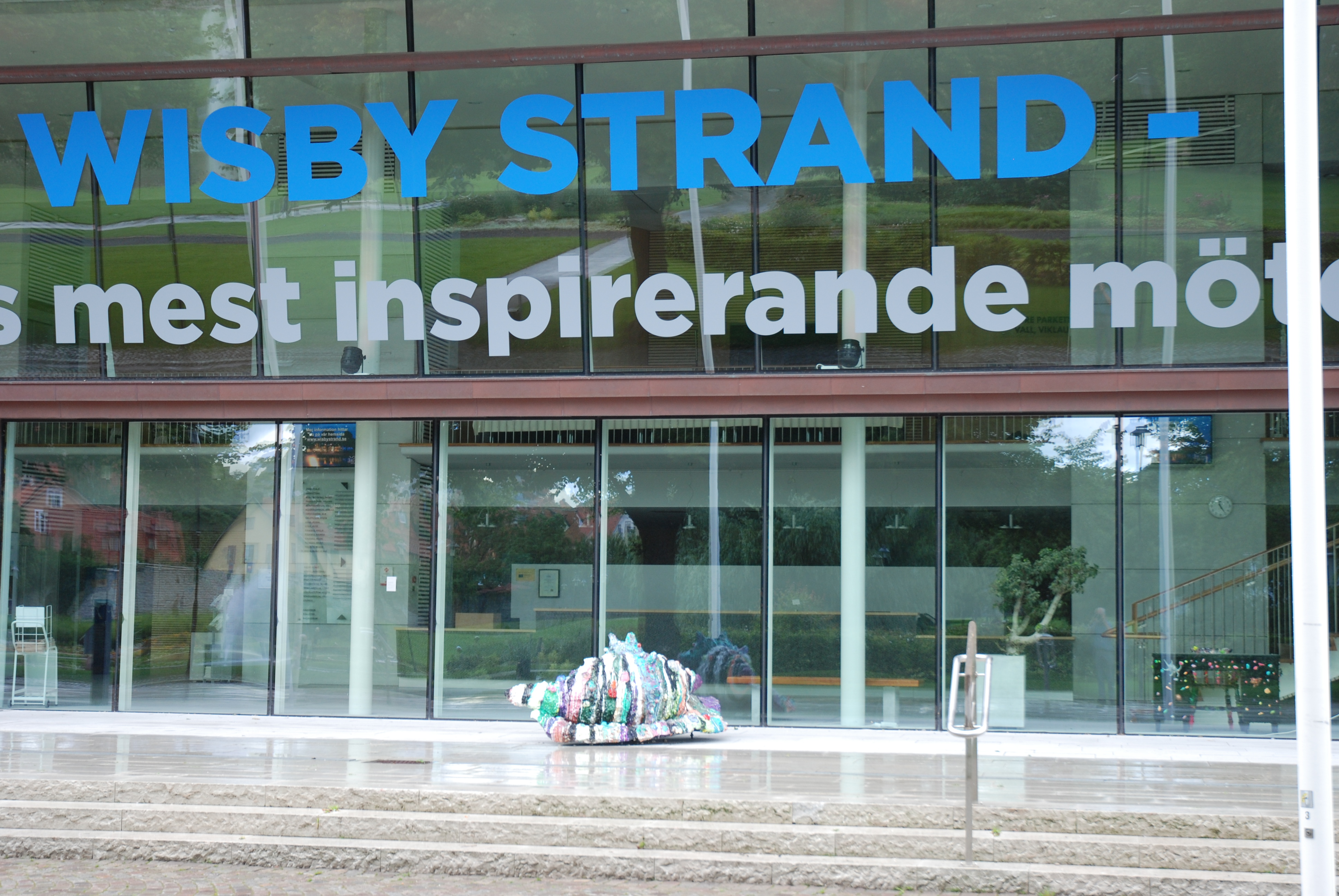 Katarina Norling' s Balladen om vaktchefen, outside Wisby Strand in Visby